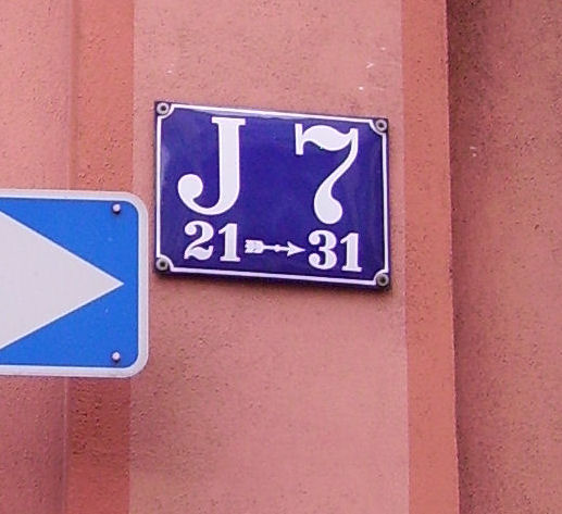 Mannheim, Germany